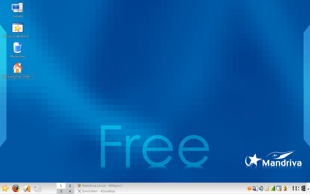 Description:My Mandriva Linux 2007 Free KDE desktop. Author: Ludwig Johannes Merker alias Lmerker Source: My computer Date: October 10th 2006